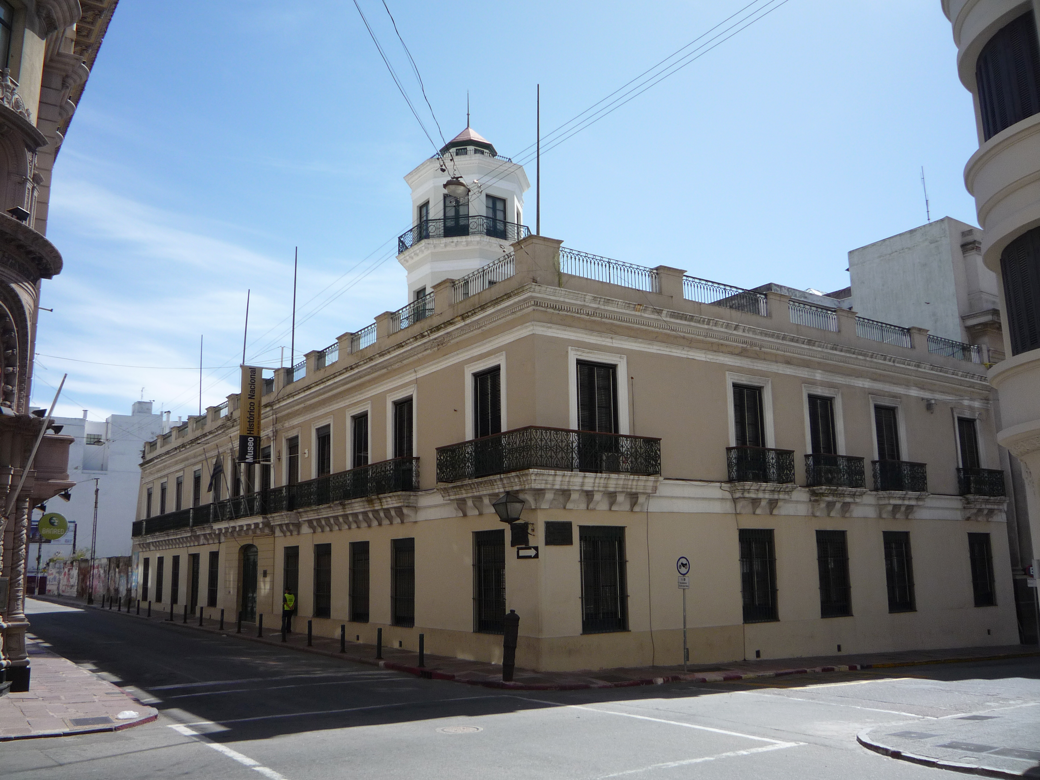 National Historic Museum of Montevideo, Uruguay